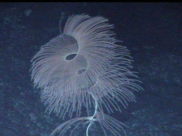 Iridogorgia, a spiral shaped coral, as seen on Alvin dive 3901. Photo WHOI.